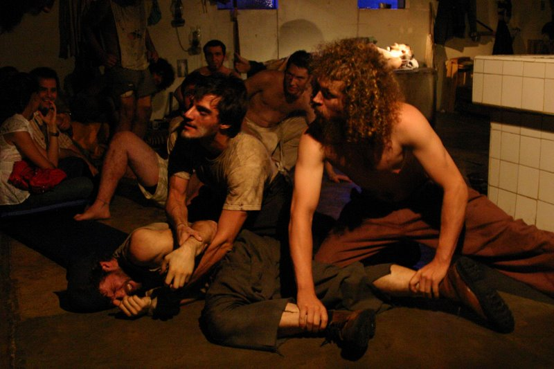 Hugo Bonemer performing in Eugene O'Neill's "Bound East for Cardiff" under the direction of André Garolli. Sao Paulo, Brazil, 2008.